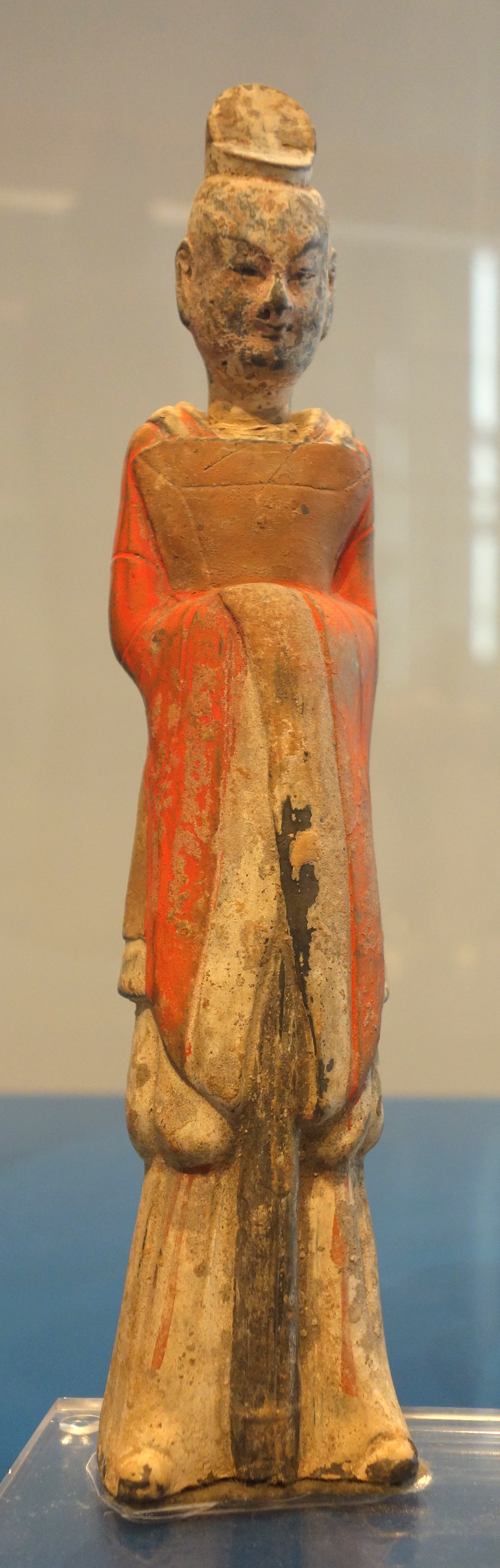 Exhibit in the Royal Ontario Museum, Toronto, Ontario, Canada. This work is old enough so that it is in the public domain.